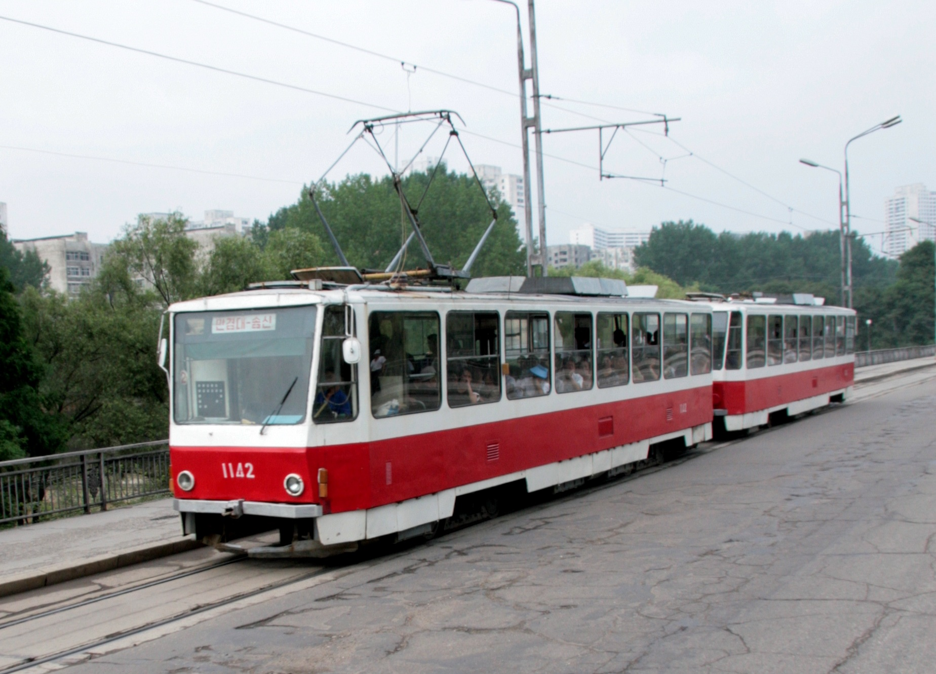 Tram in Pyongyang, North Korea in 2007.